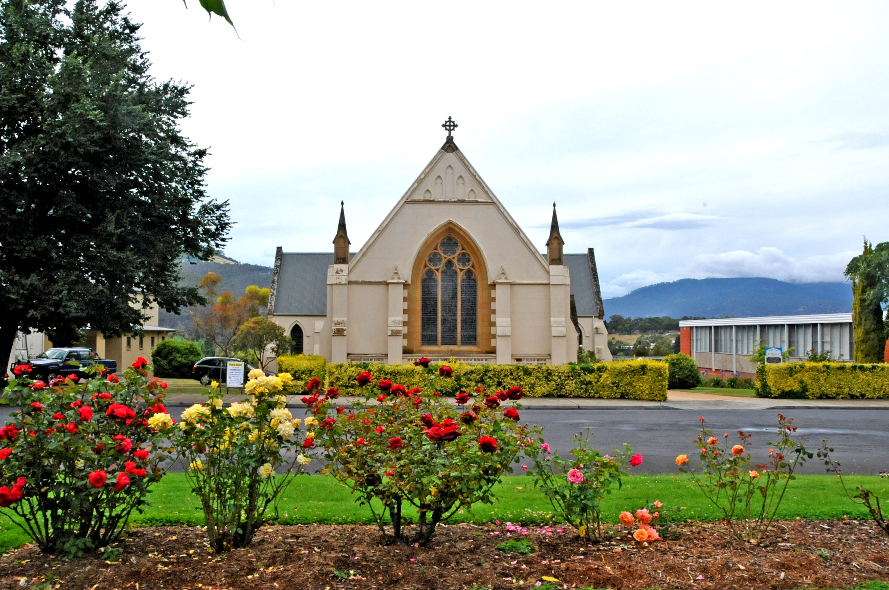 ST. MATTHEW’S ANGLICAN CHURCH FROM 1823 IS THE OLDEST CHURCH IN TASMANIA BUT HAS BEEN EXTENSIVELY ALTERED; NEW NORFOLK, TASMANIA SEE WIKIPEDIA "NEW NORFOLK, TASMANIA"